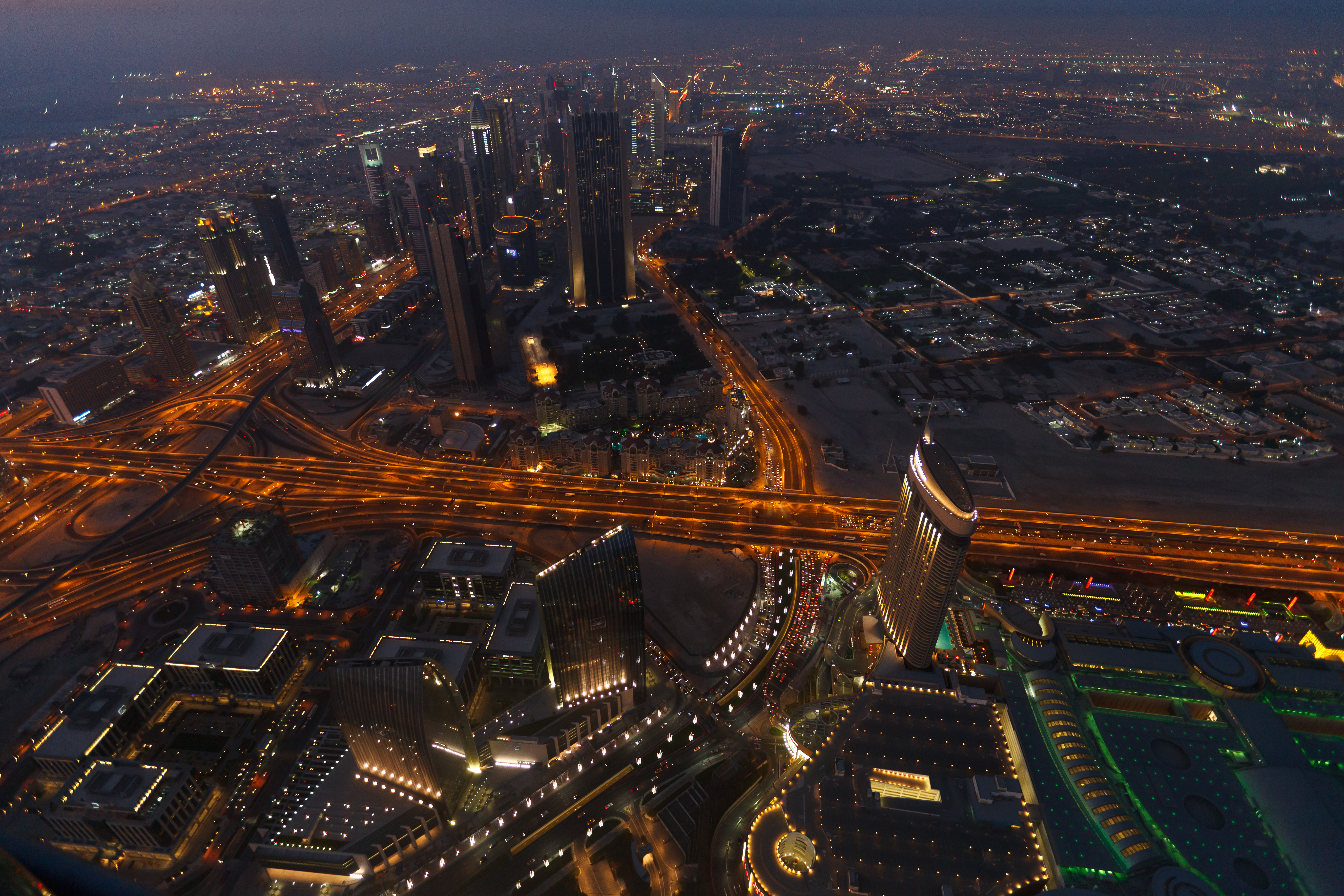 Night Dubai